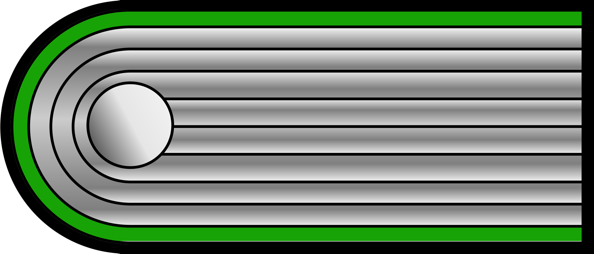 Rang insignia shoulder strap, here SS-Untersturmfuehrer of the Waffen-SS until 1945, corps colour "Jäger-gree" of the SS-Mountain infantry.